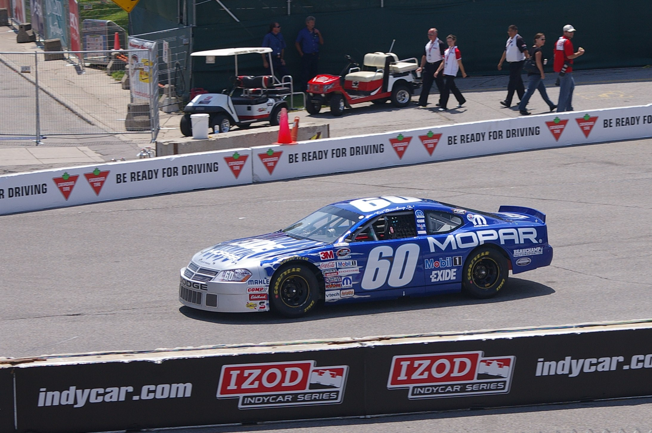 Ron Beauchamp, Jr. drives the No. 60 Dodge during practice for the NASCAR Canadian Tire Series Jumpstart 100 at Toronto.